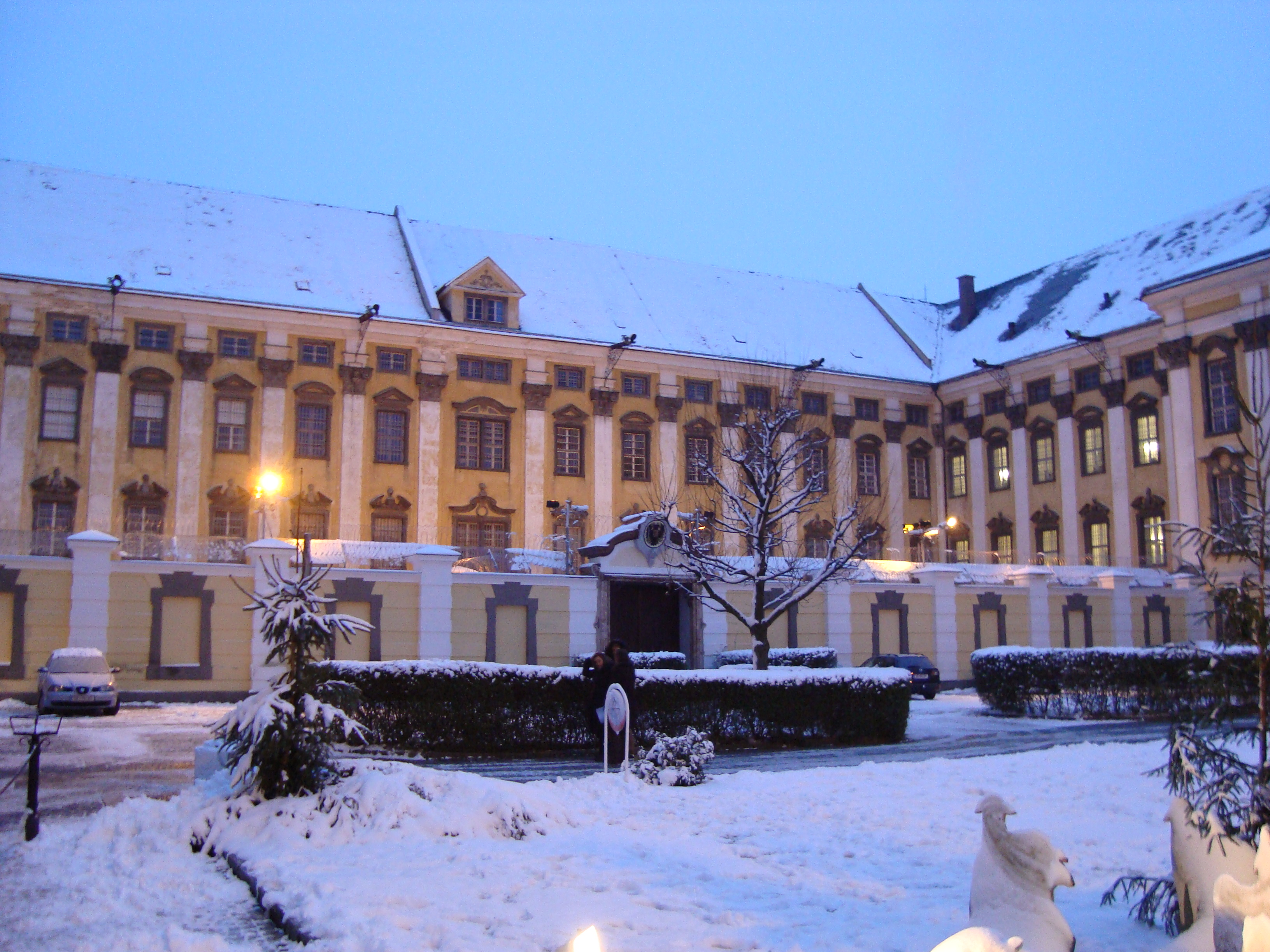 Garsten Abbey, Garsten, Upper Austria